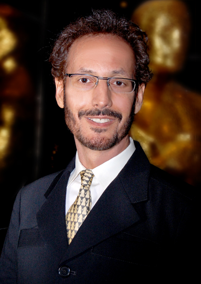 Phillip Christon a film director, producer and writer